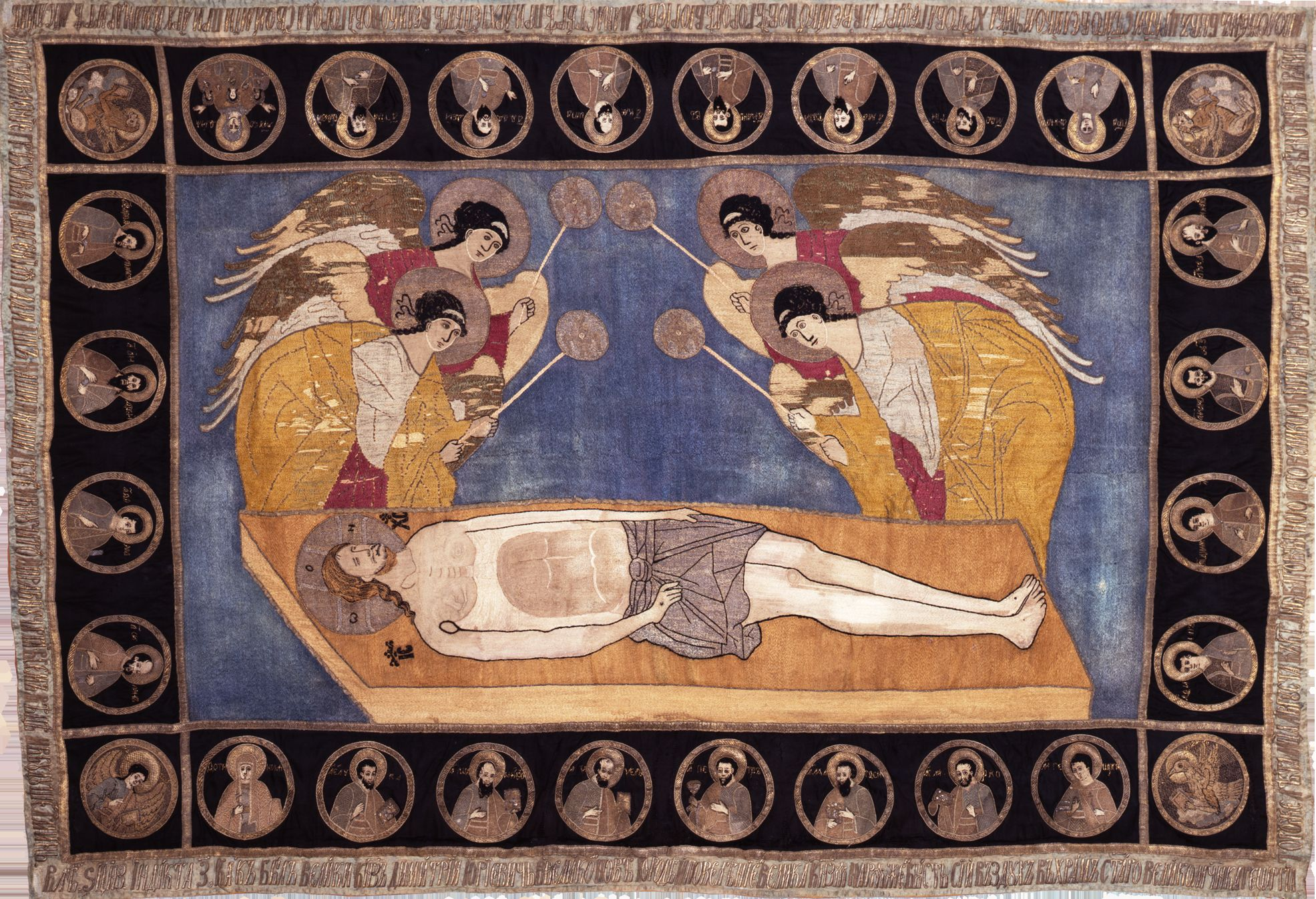 Epitaphios (the Aër) made at the command of Dmitry Shemyaka in for Yuriev Monastery of Novgorod the Great (1444 or 1449). The Novgorod State United Museum Reserve.